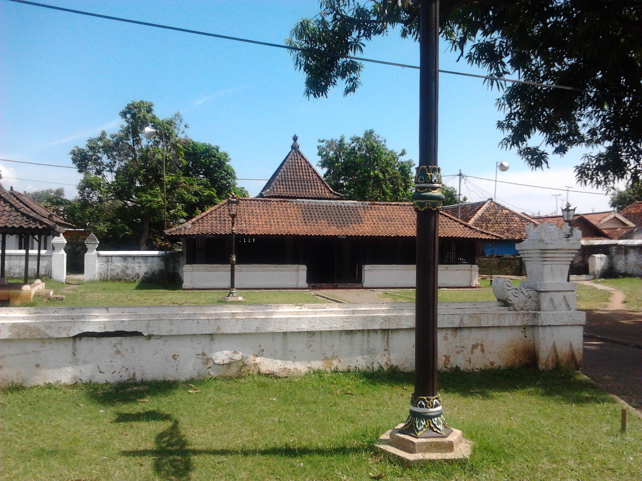 A photograph of the Tajug Agung ("grand musala") of the Kasepuhan Palace in Cirebon, West Java.